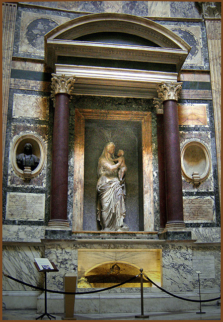 Pantheon, Rome, Raphael's tomb.